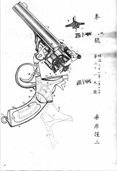 japanese revolver pistol.